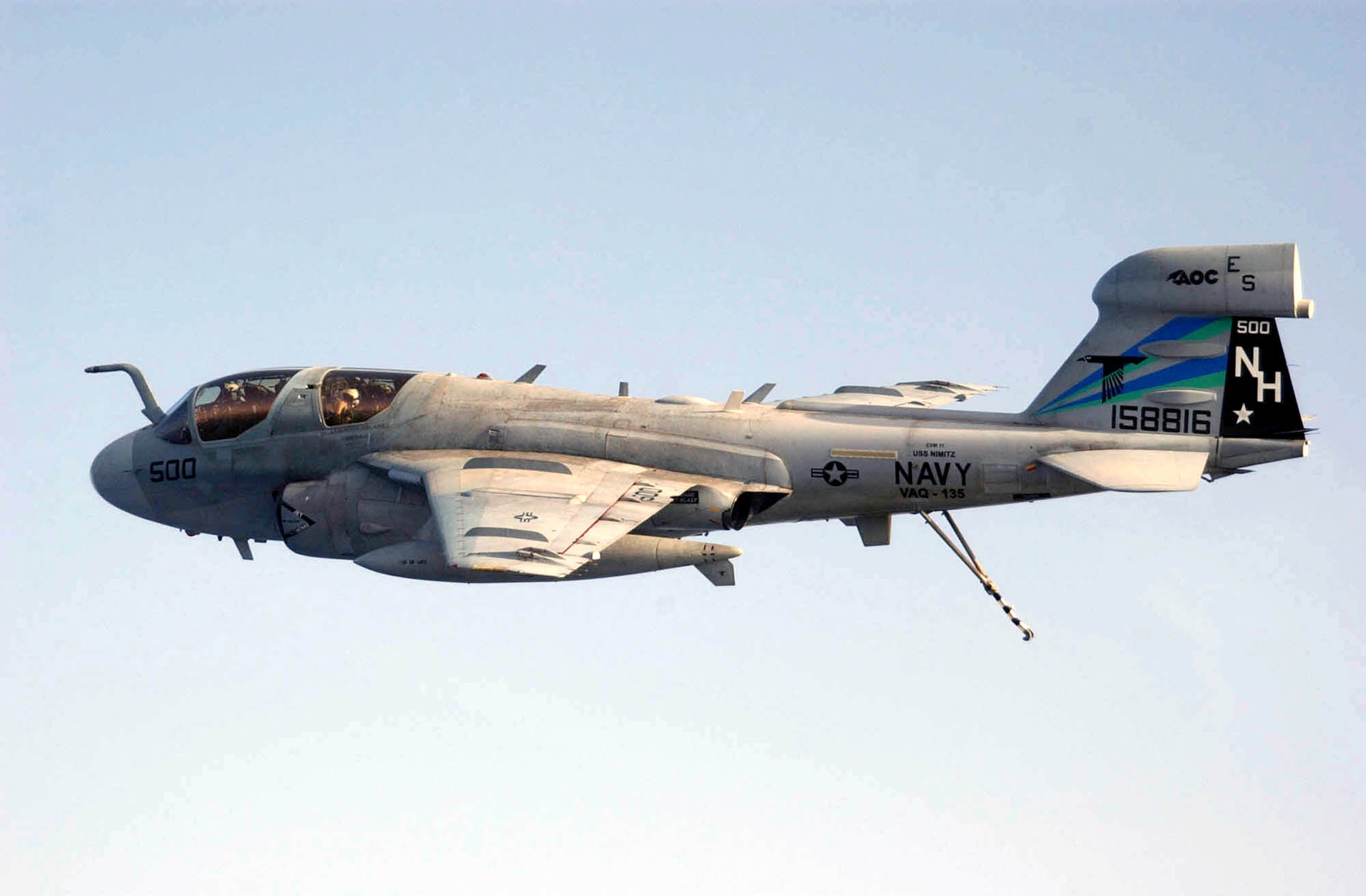 At sea aboard USS Nimitz (CVN 68) Apr. 17, 2002 – An EA-6B Prowler assigned to the “Black Ravens” of Electronic Attack Squadron One Three Five (VAQ-135) lowers it’s tail hook in preparation for landing aboard the nuclear powered aircraft carrier Nimitz after returning from a mission in support of Operation Iraqi Freedom. Operation Iraqi Freedom is the multinational coalition effort to liberate the Iraqi people, eliminate Iraq's weapons of mass destruction, and end the regime of Saddam Hussein. U.S. Navy photo by Photographer's Mate 2nd Class Michael J. Pusnik, Jr. (RELEASED)